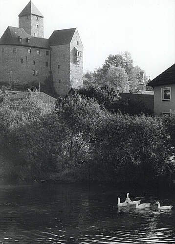 Castle Falkenberg Fotograf: Walter J.Pilsak Copyright Status: GNU Freie Dokumentationslizenz